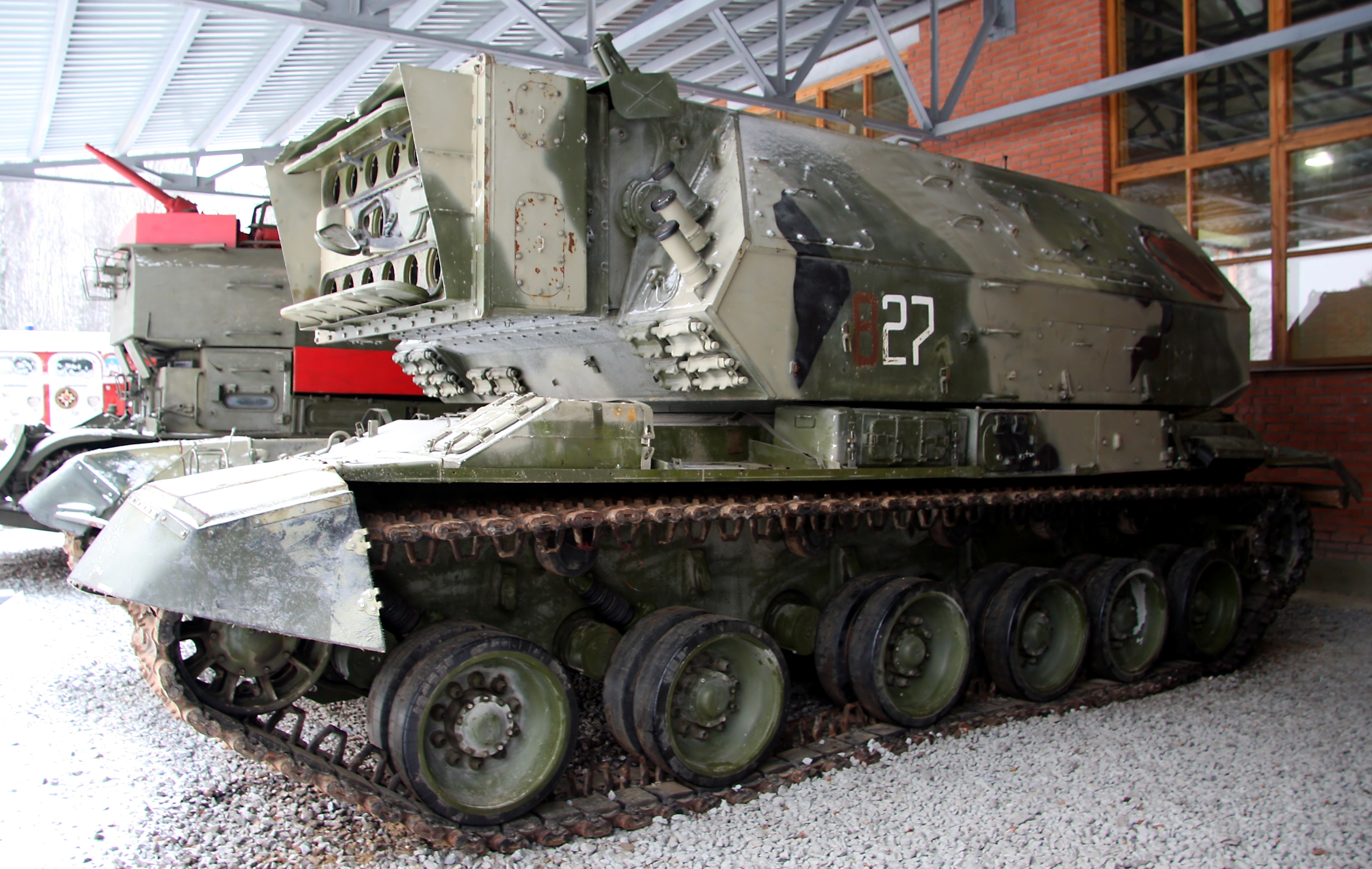 The Soviet self-propelled laser system 1K17 Szhatie on display in a newly opened military technical museum in Noginsk district, Russia.